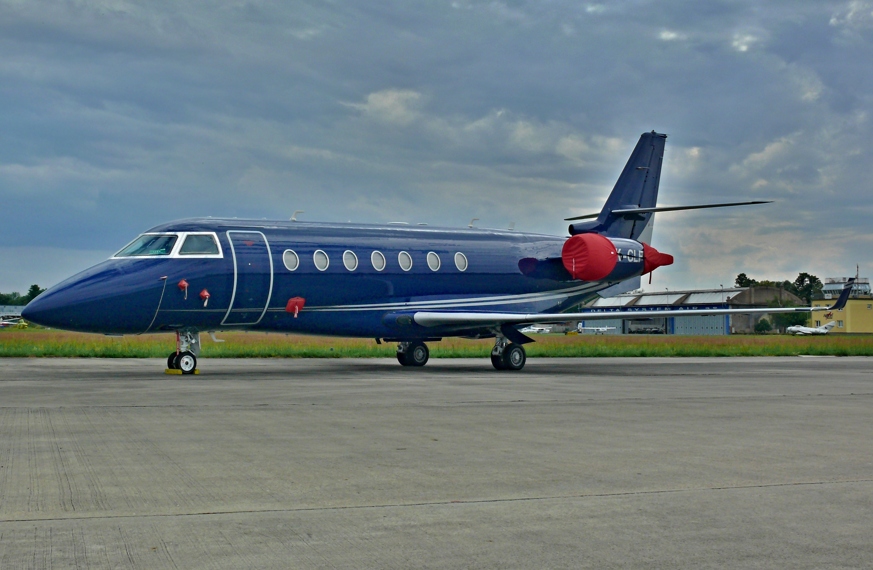 Gulfstream 200 in Hradec Kralove